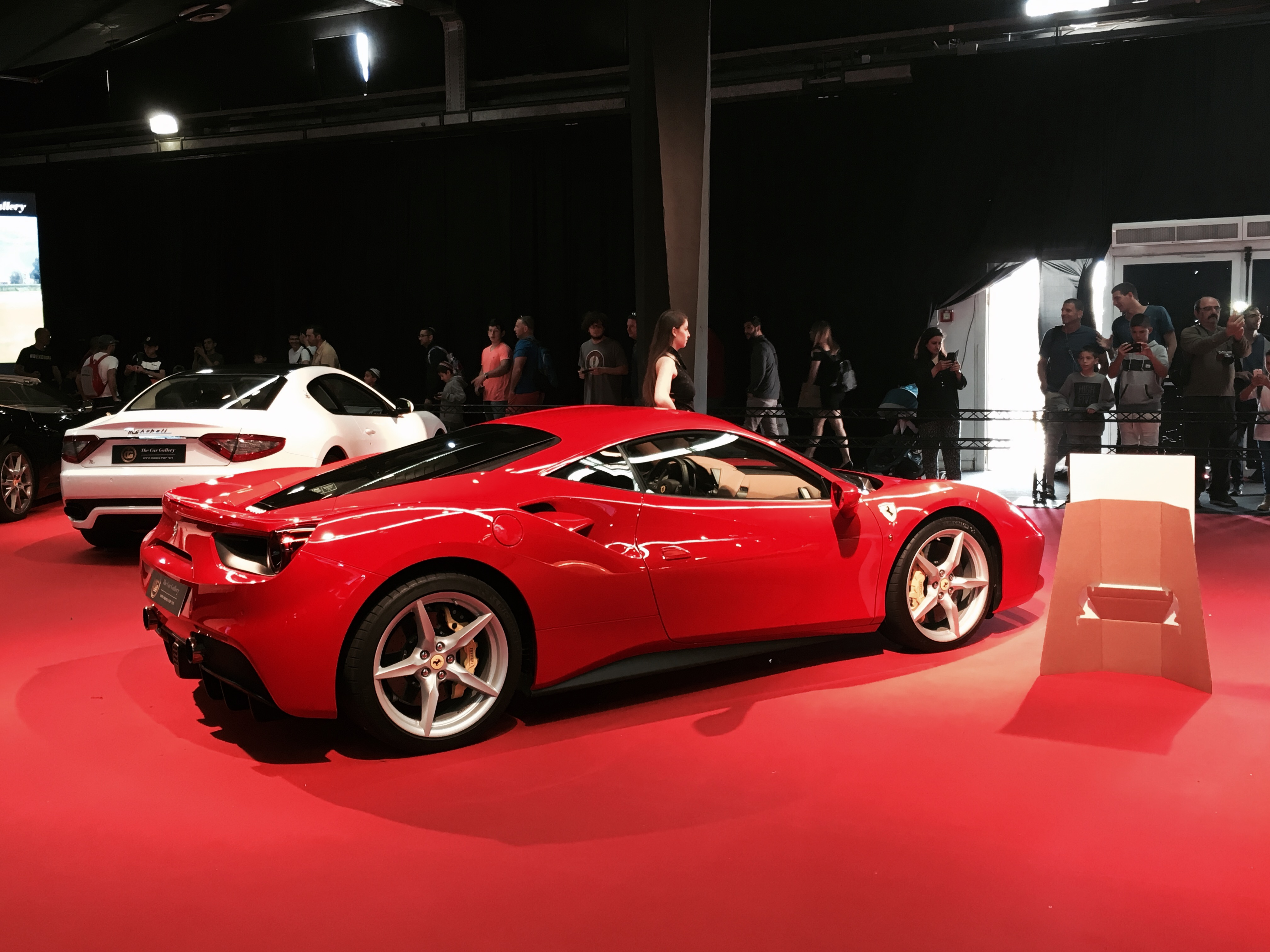 Ferrari 488GTB 2017 in the Automotor autoshow in Tel Aviv, Israel